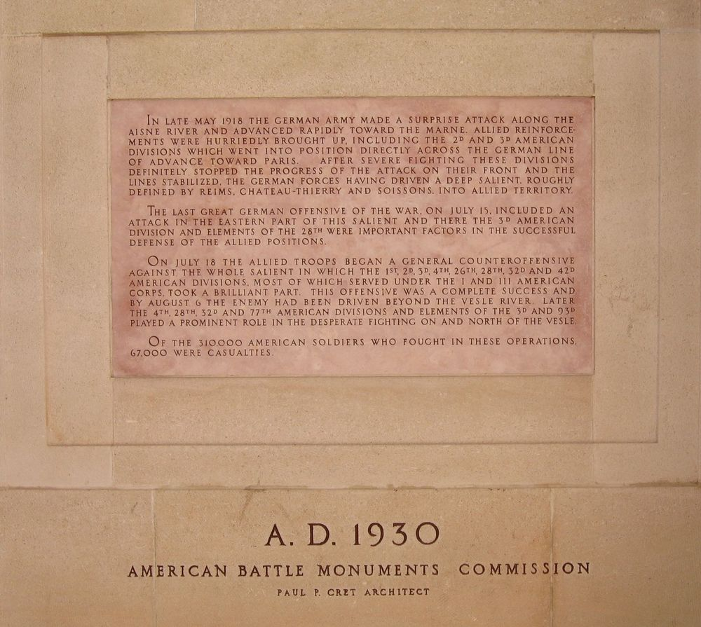 Commemorative text on the American Monument of Château-Thierry. Describe the operations during the Battle of Château-Thierry (1918).